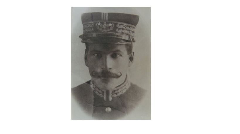 General Valentin Reyes Nava